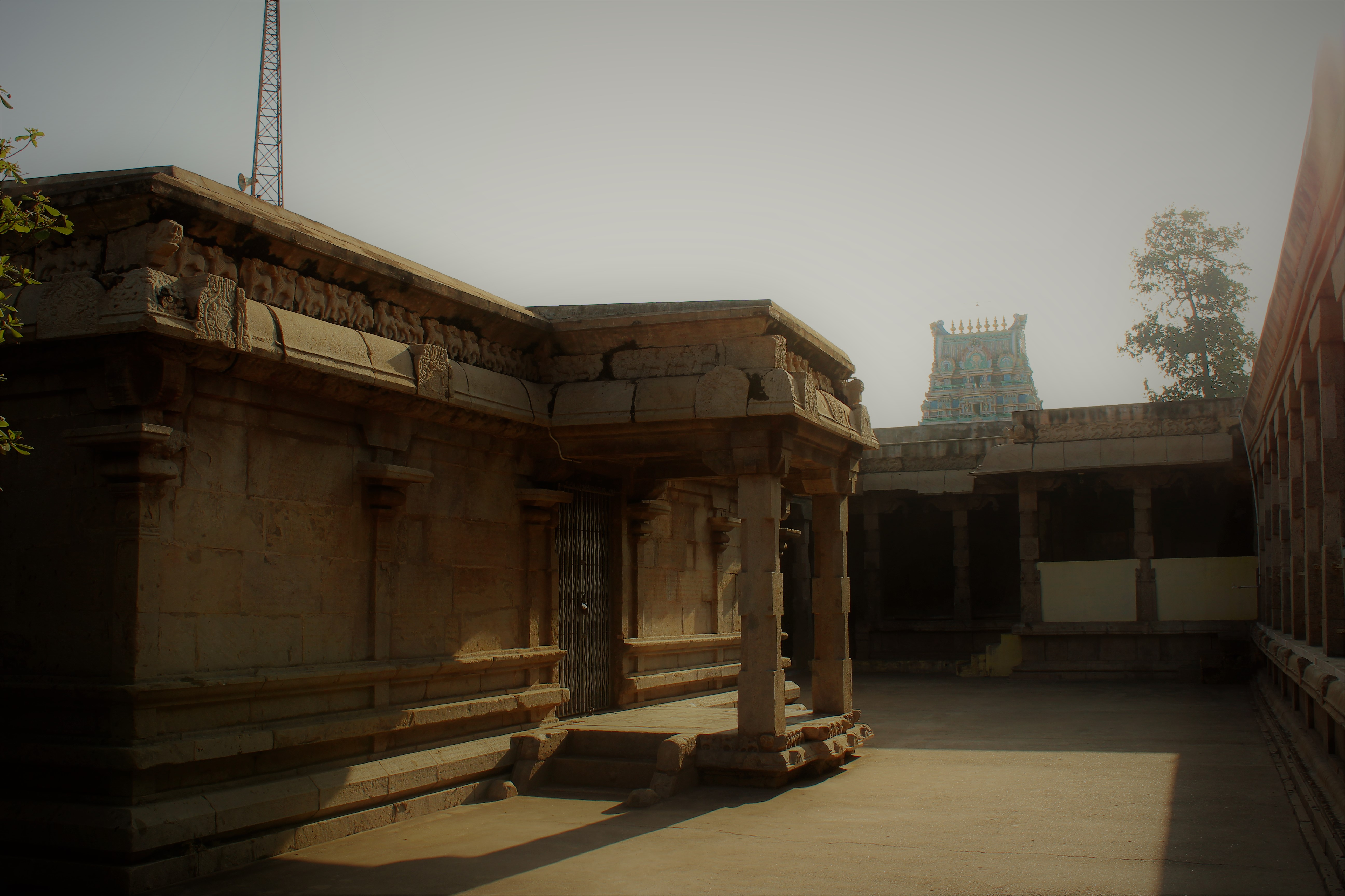 Neyyadiyappar temple, Thirupathur